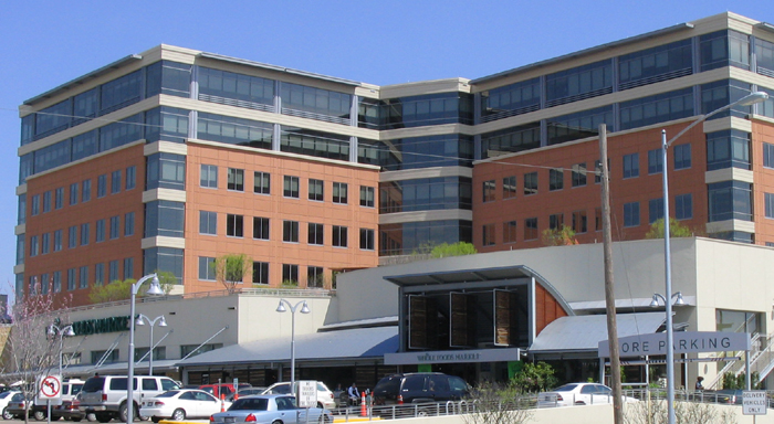 Whole Foods Headquarters. Austin, TX March 2005